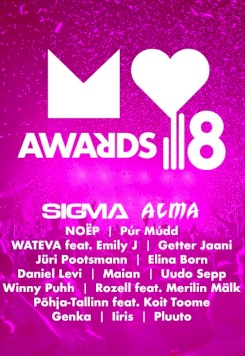 MyHits Awards 2018 poster